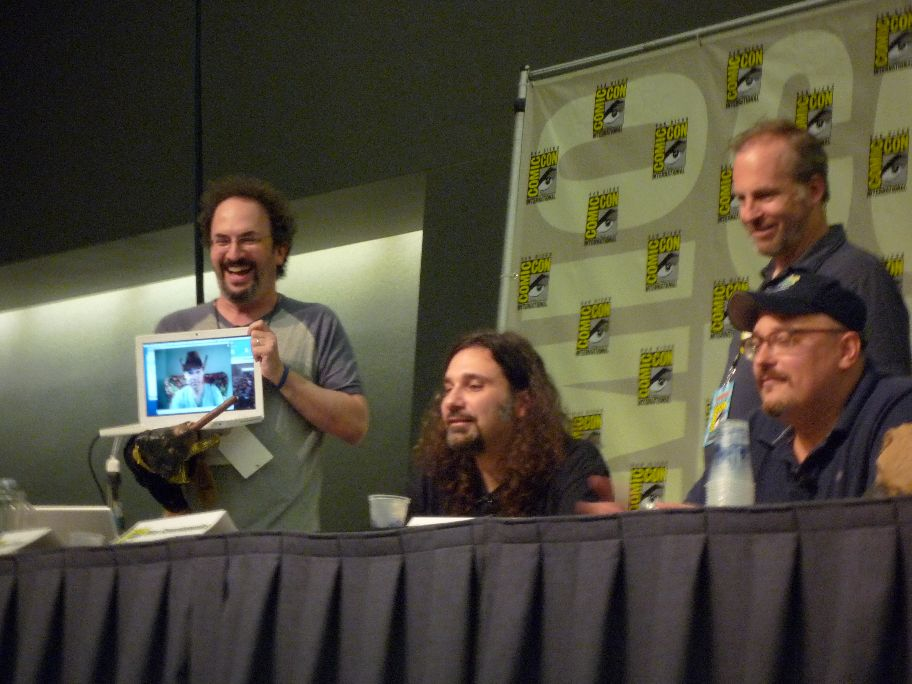 Robert Smigel (with Triumph the Insult Comic Dog), Doug Dale (on computer screen), Dino Stamatopoulos, Bob Odenkirk (standing behind Blacha) and Tommy Blacha at the 2008 San Diego Comic-Con